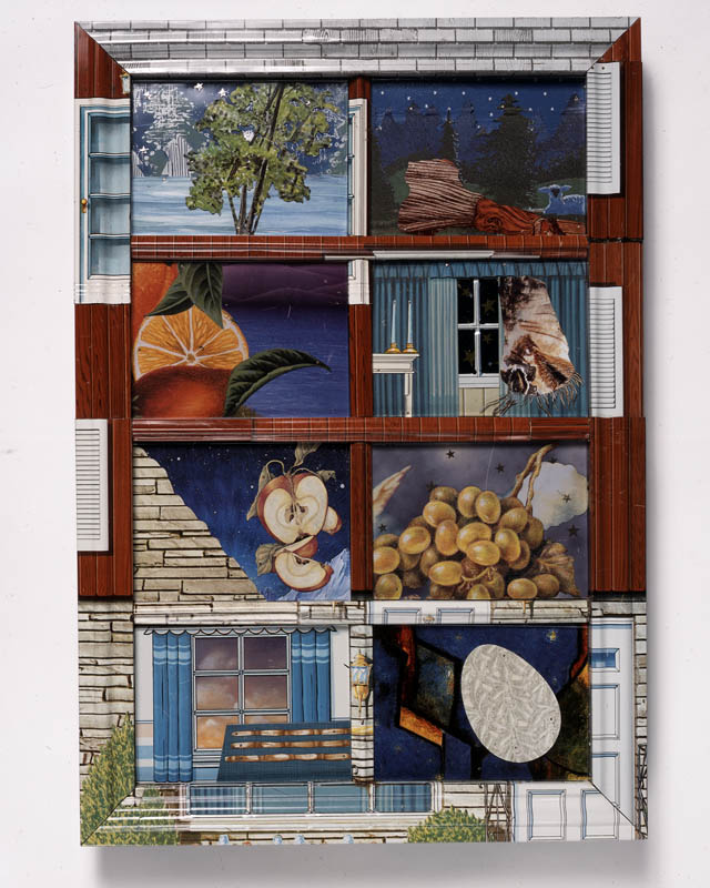 Title: For the Child Who is Unable to Inquire, Thou Shalt Explain the Whole Story of Passover (Seder plate) Creator: Harriete Estel Berman Object Origin: San Mateo, California Medium: steel, tin, plexiglas, sterling silver, brass Date: 2000-2001 Persistent URL: Repository: Yeshiva University Museum, 15 West 16th Street, New York, NY 10011 Accession Number: 2007.077 Rights Information: No known copyright restrictions; may be subject to third party rights. For more copyright information, click See more information about this image and others at